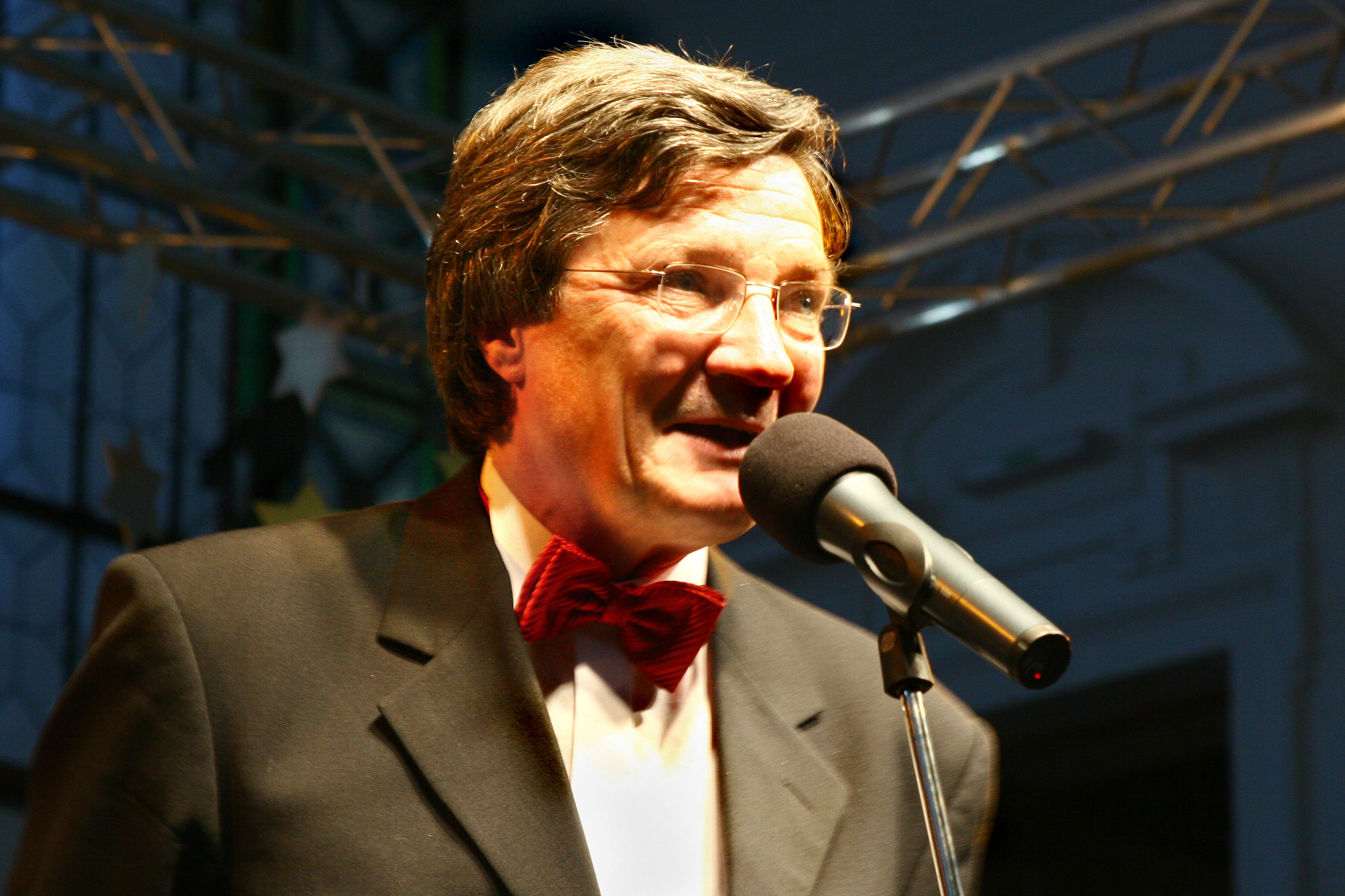 Jan Palous, chairman of the National Organizing Committee. Farewell Dinner of the IAU 26th General Assembly, Prague